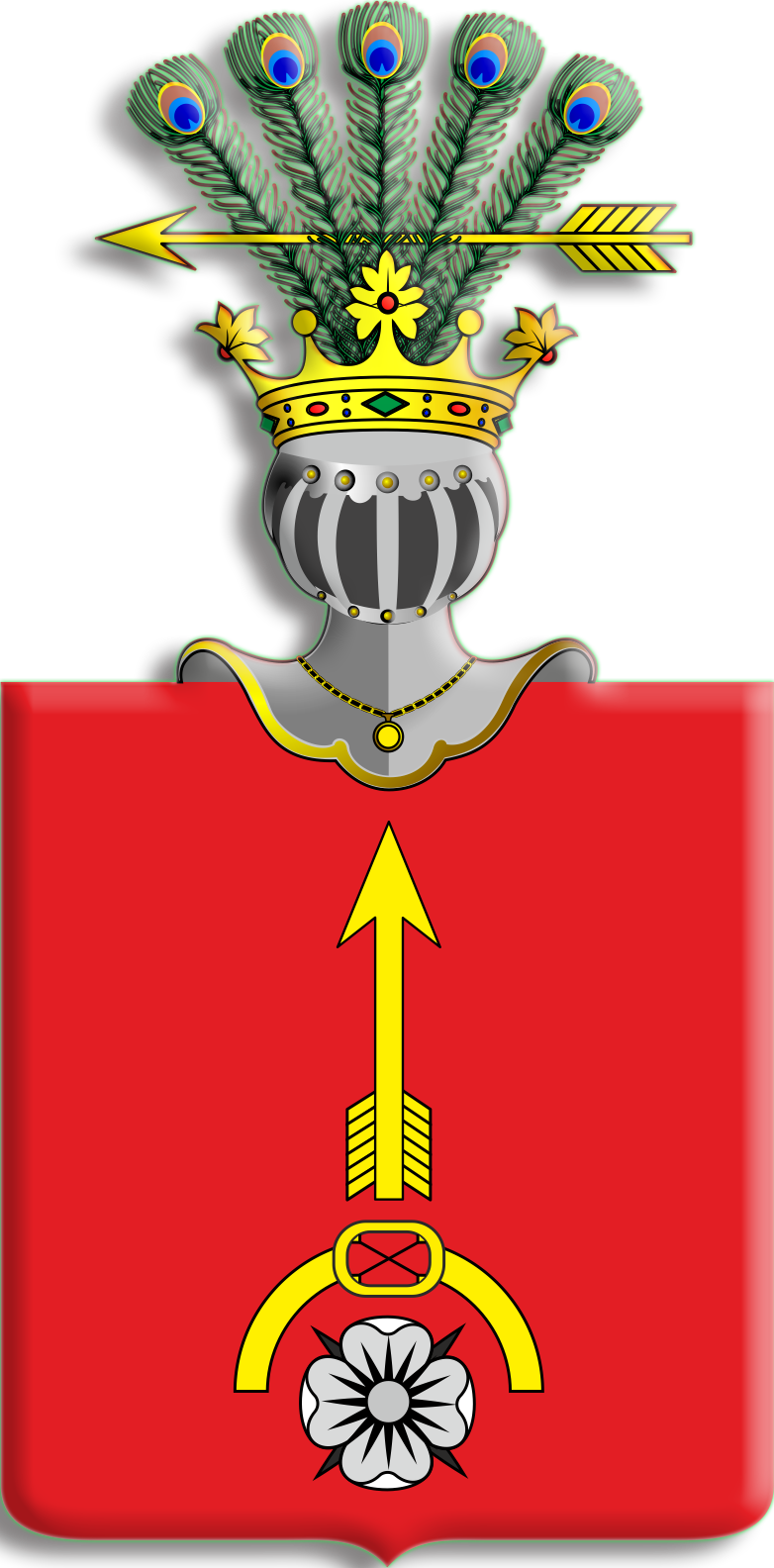 Gnieszawa the modern French heraldic shield